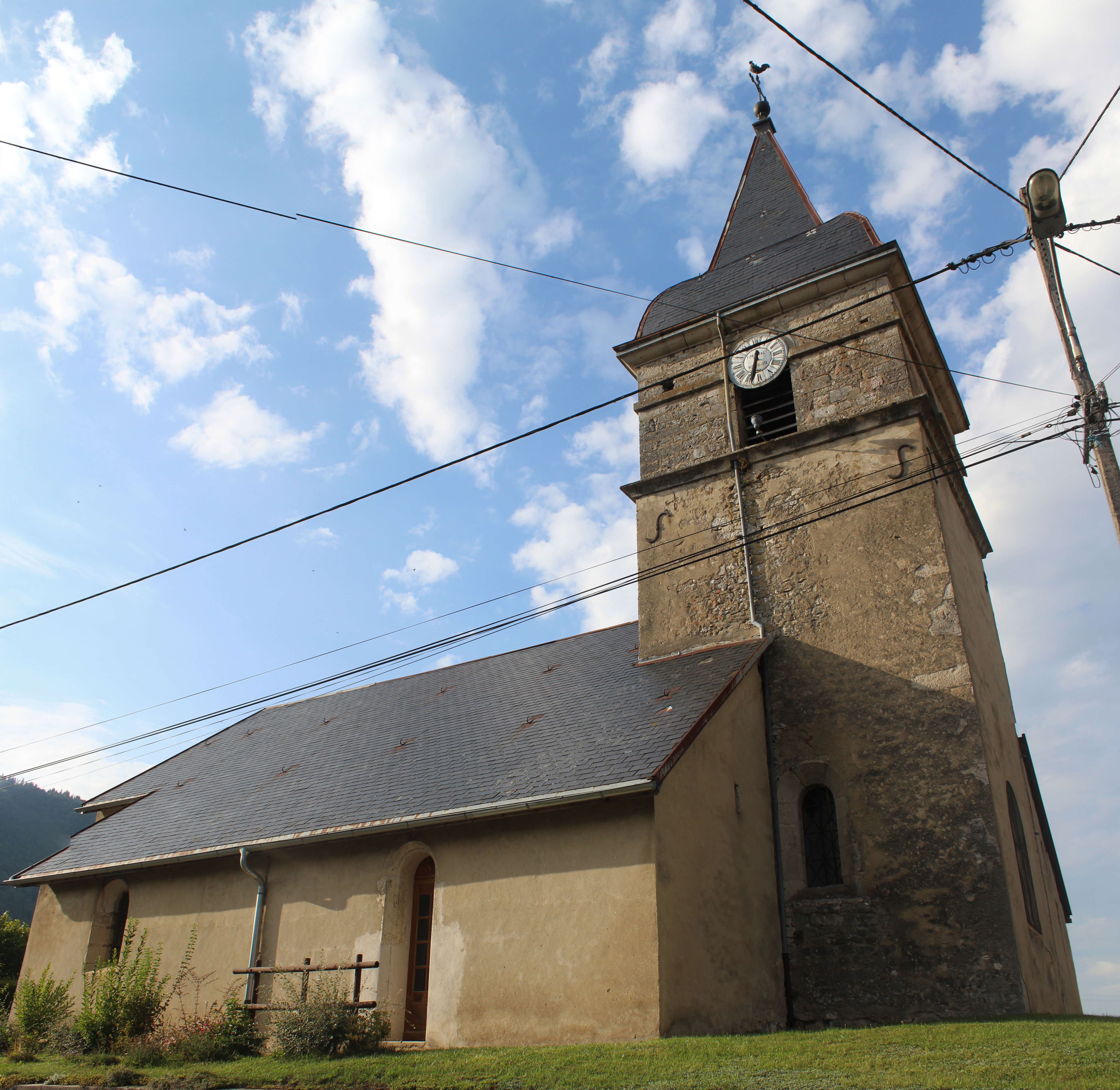 Unknown language: Église Saint-Jean-Baptiste d'Izenave.